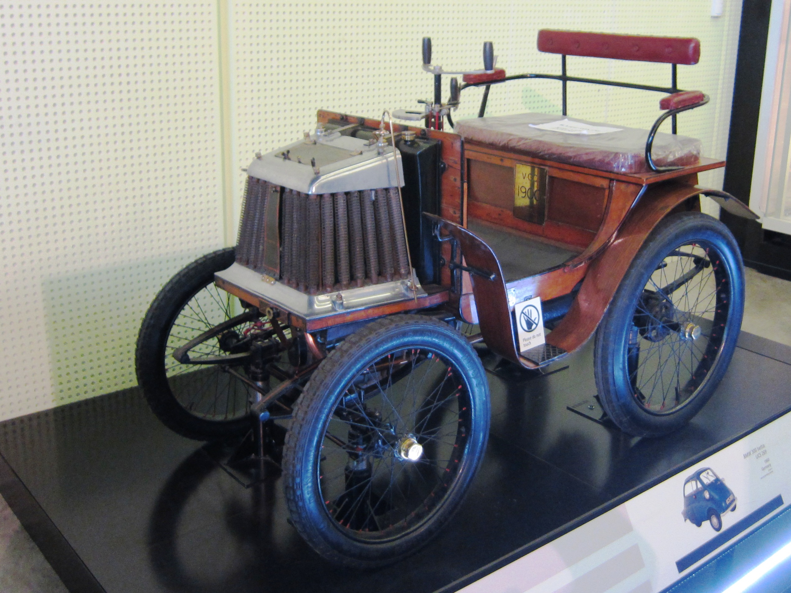 Argyll 5HP